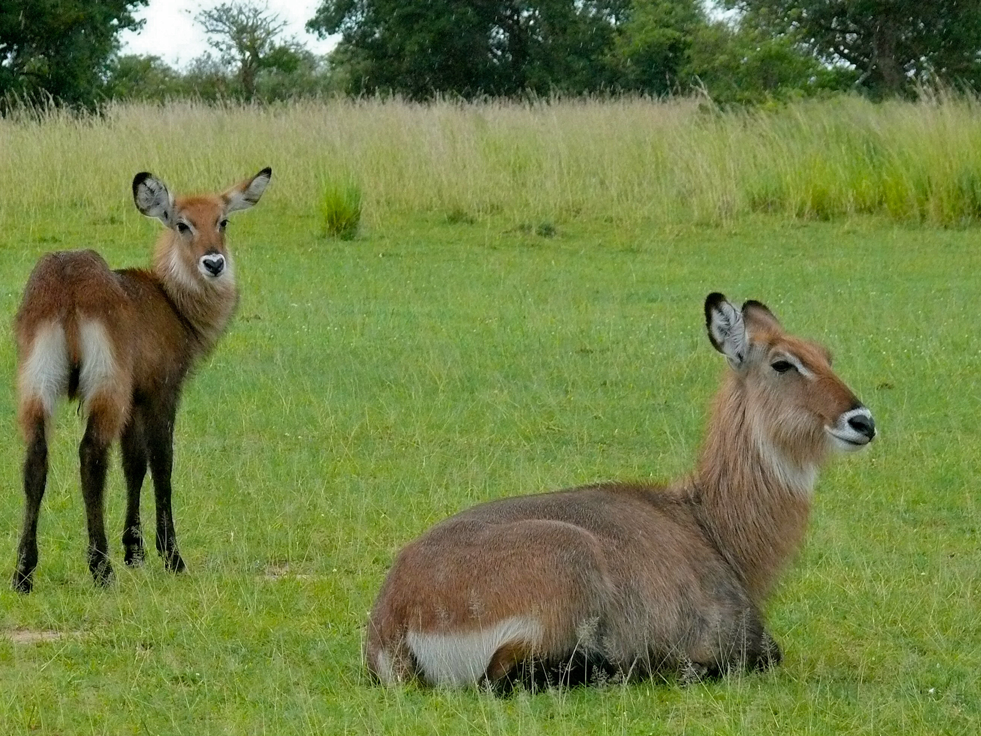 Murchison's Falls NP, UGANDA